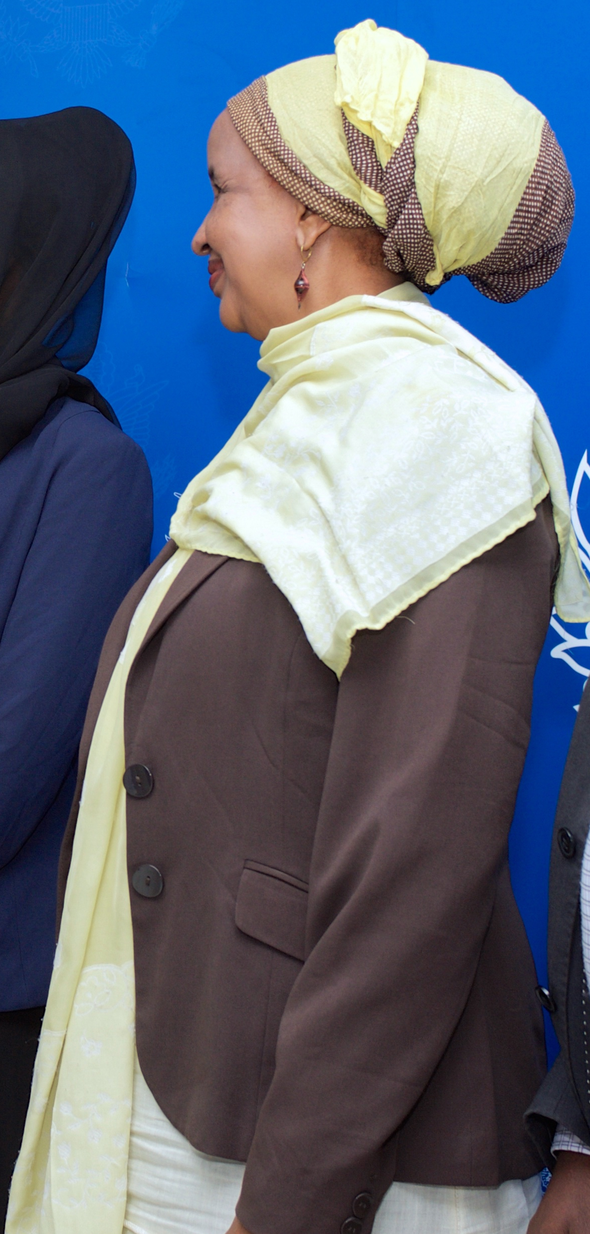 Somali social activist Zainab Hassan.